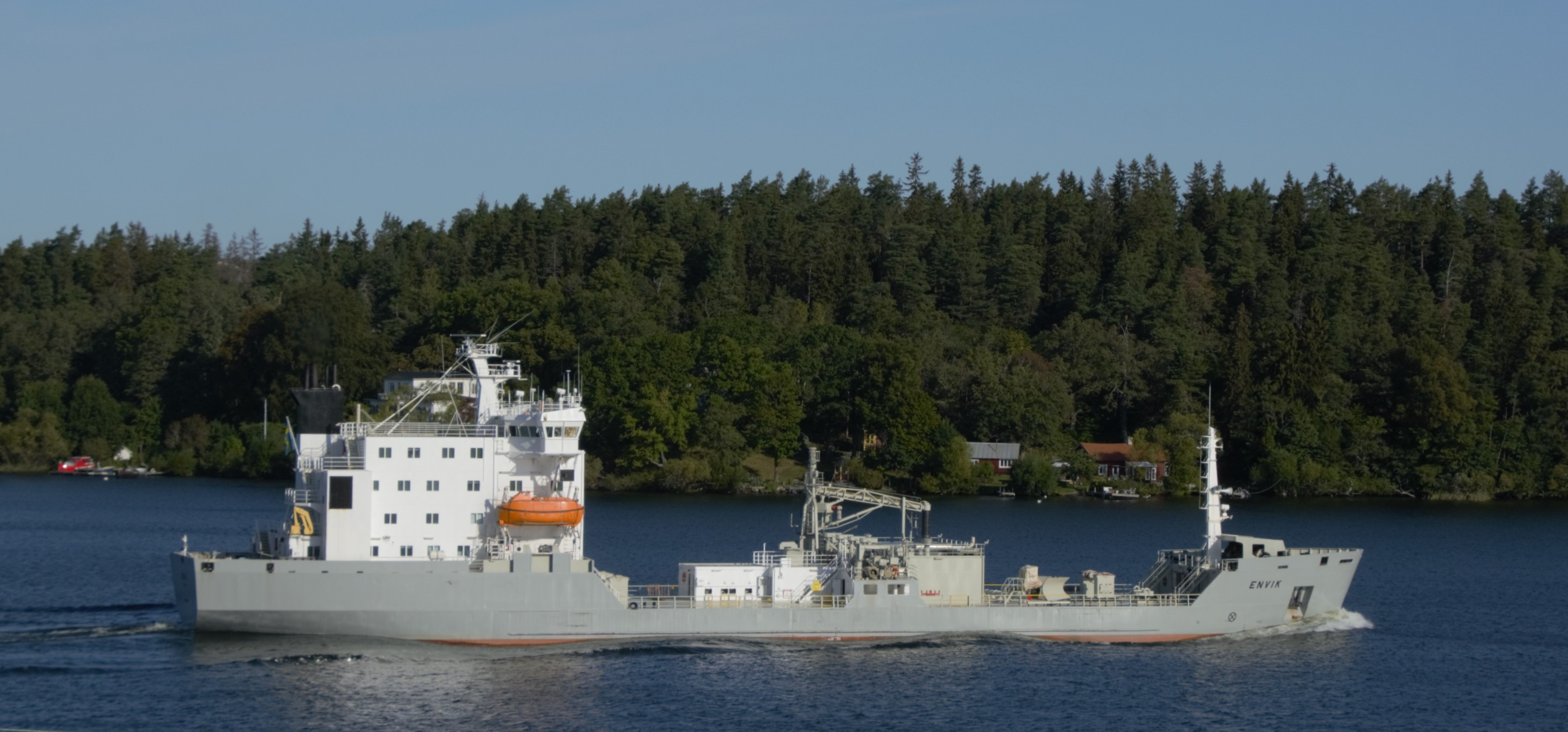 MS Envik, cement bulk carrier at Lake Mälaren in Stockholm, Sweden